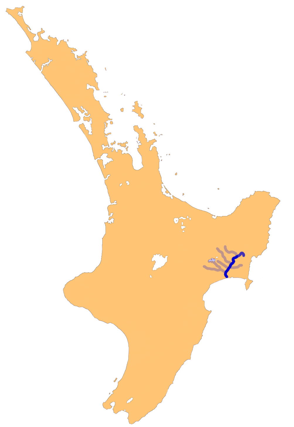 Location map of the Wairoa River, Hawke's Bay, North Island, New Zealand